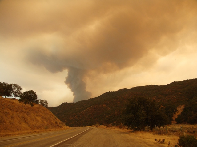 Plume of smoke rising from the La Brea Fire.